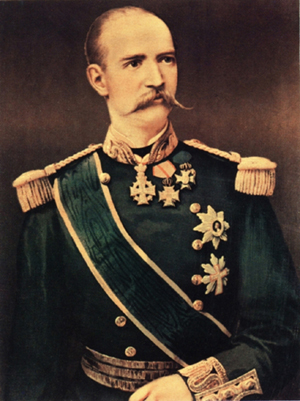 Georgios I, King of Greece (b.1845-d.1913)